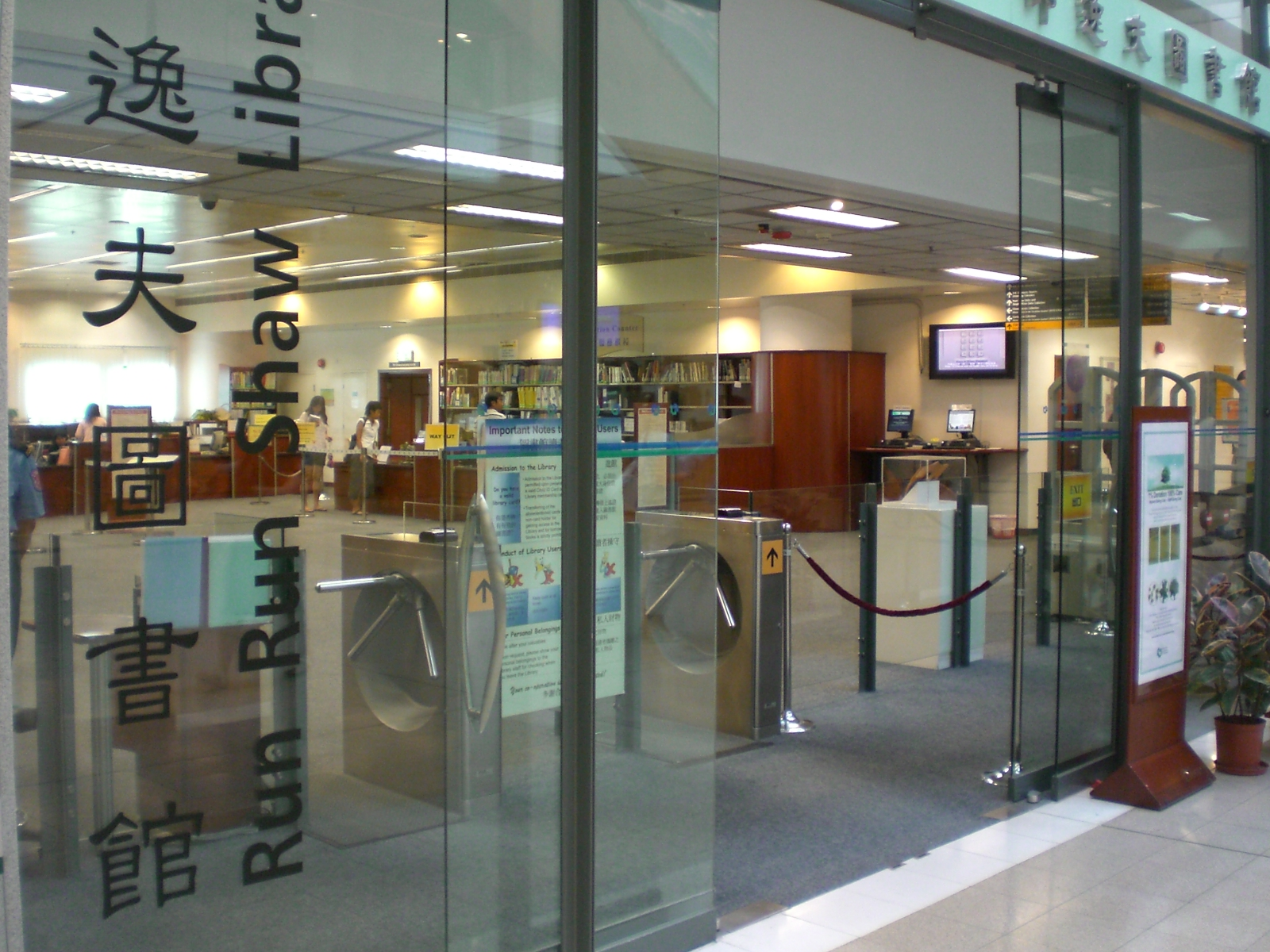 香港城市大學, City University of Hong Kong, zh-yue:香港城市大學